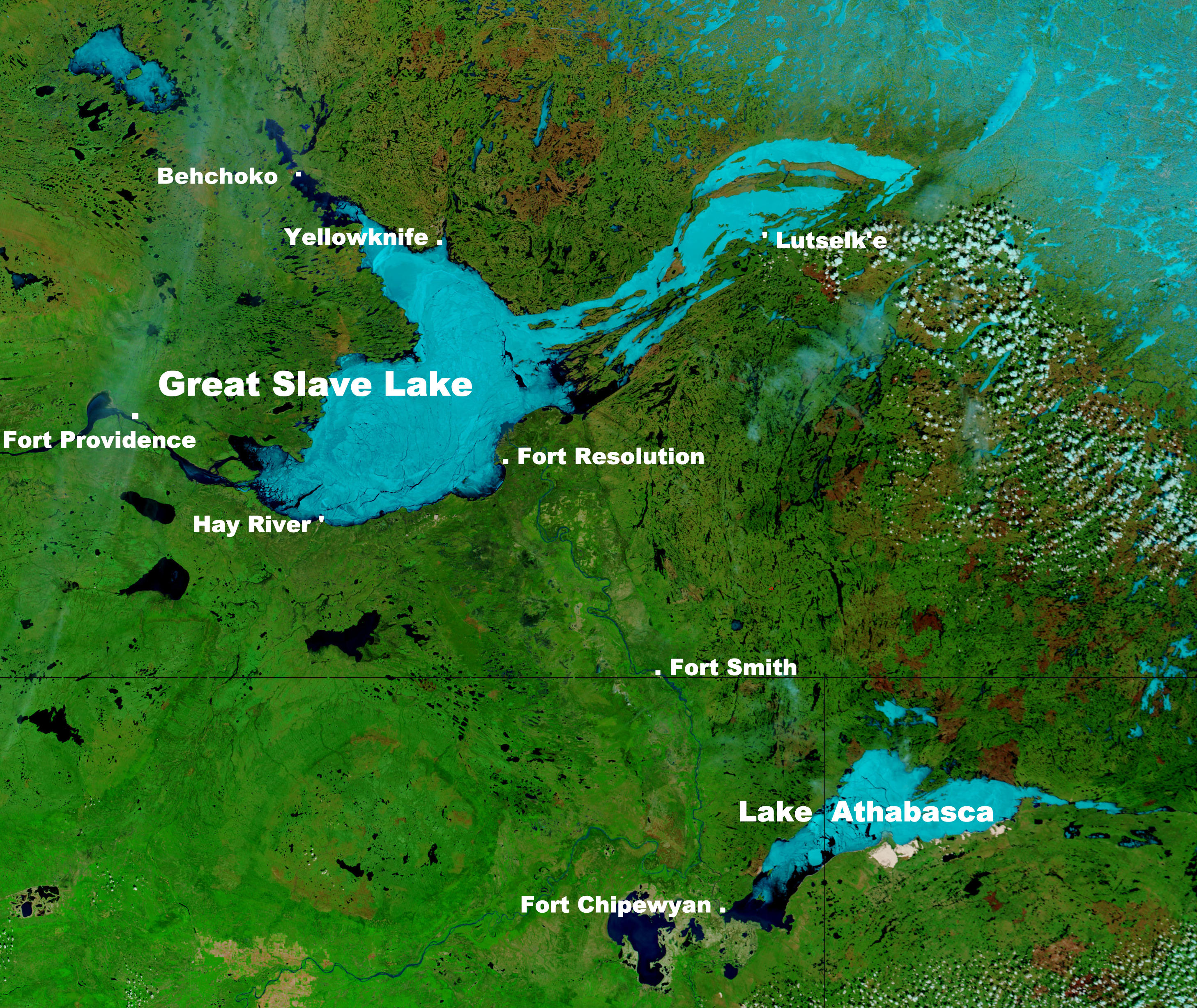 These true- and false-color images of central Canada show the Great Slave Lake in the Northwest Territories (top) and Lake Athabasca to the southeast. Lake Athabasca straddles the border between Alberta (west) and Saskatchewan (east). A fire (red dot) is burning in Alberta, and the snow capped Rocky Mountains cut through southwest Alberta at bottom left. In the false-color image, vegetation is green, water is dark blue, and ice (or snow) is light blue. (Captions added by Kayoty)